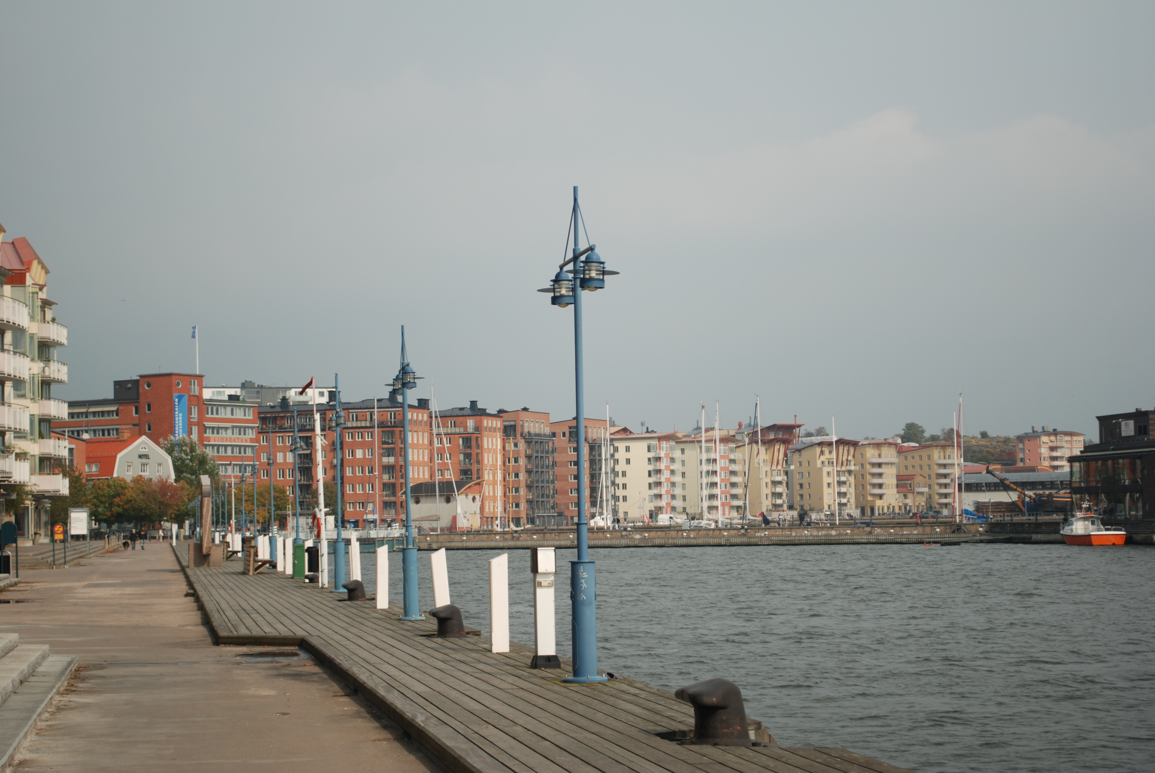 New residential buildings in Eriksberg, a historic shipyard in Gothenburg.